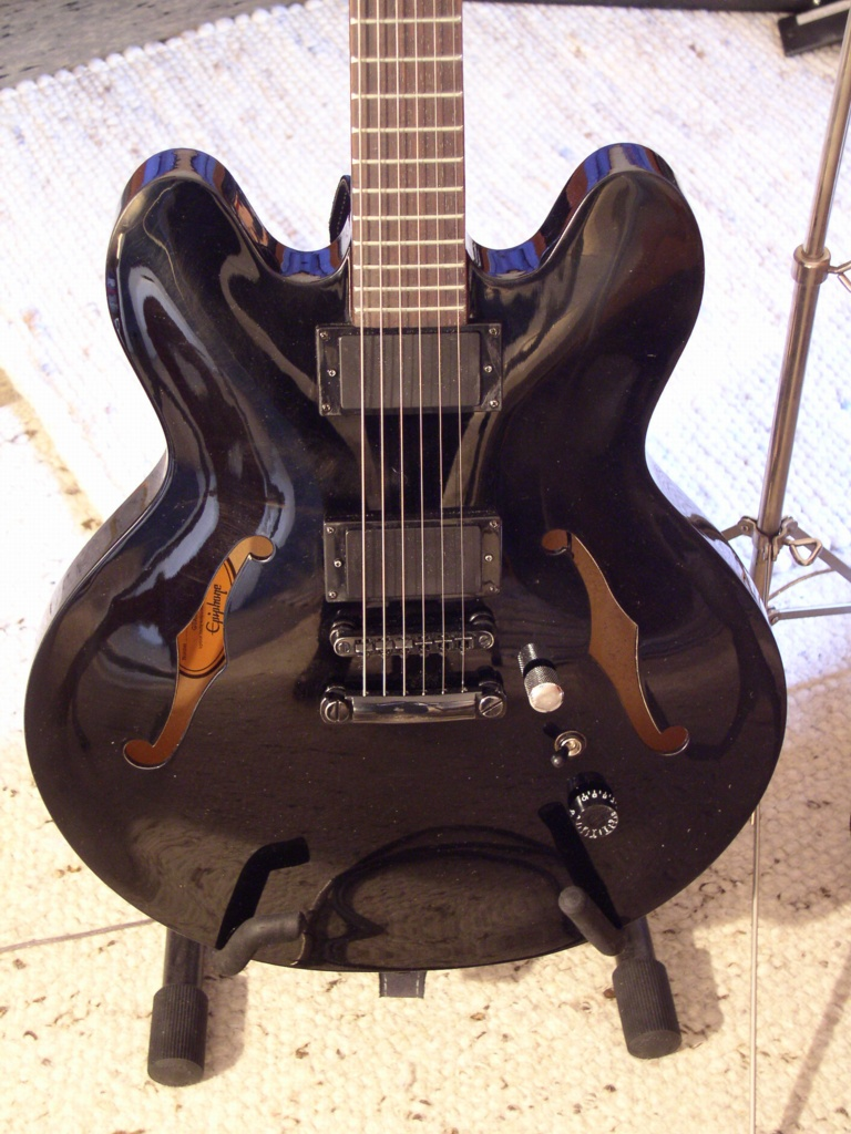 Body of a semi-hollow electric guitar, model Epiphone Dot-Studio in black, with slight modifications (chromium-plated speed dome volume control knob, plastic pickup caps)